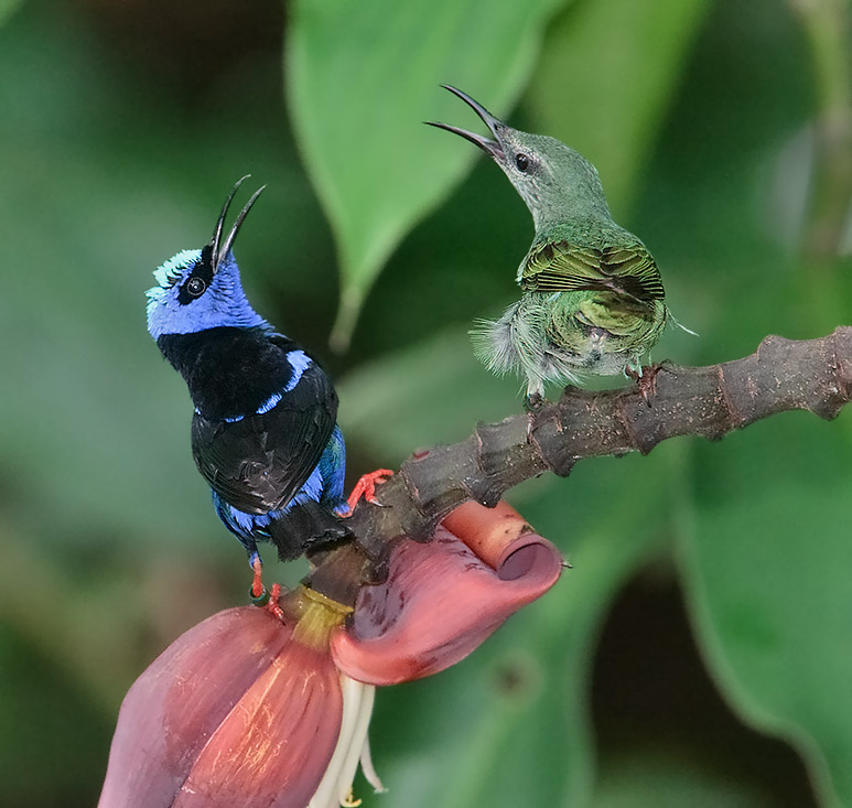 Red-legged Honeycreeper - male on left, female on right